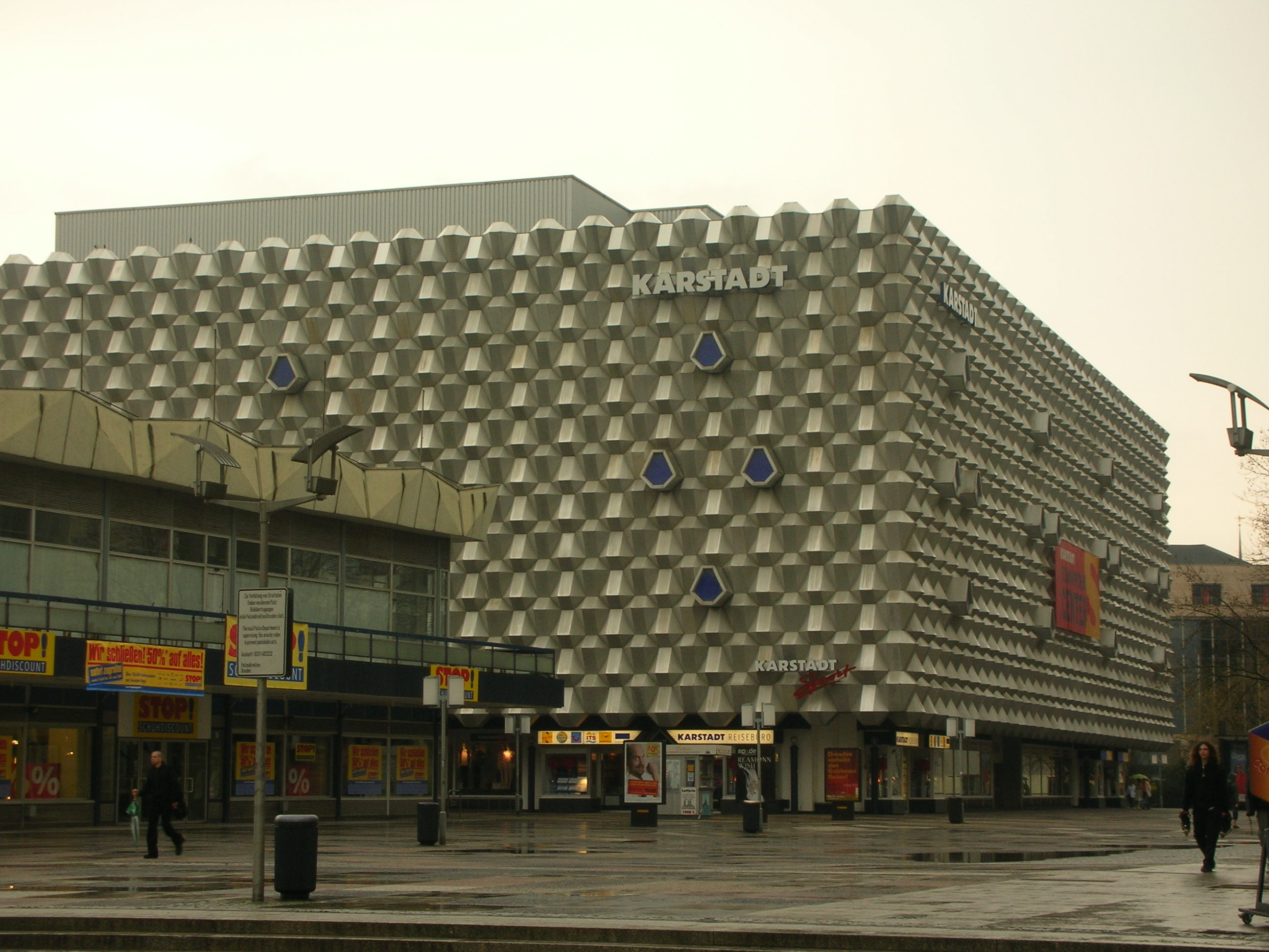 Karstadt store Dresden